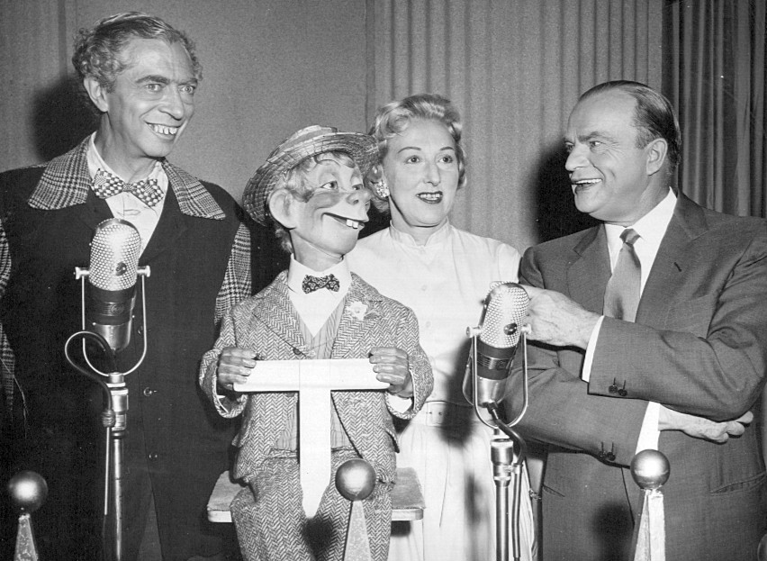 Photo of Edgar Bergen and Mortimer Snerd with a contestant couple from the game show Do You Trust Your Wife?". The item has no copyright markings on it as can be seen in the links above.